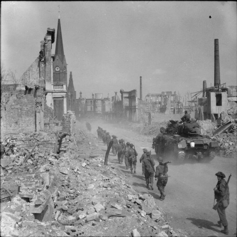 The British Army in North-west Europe 1944-45 A Sherman tank and infantry advance into a heavily-bombed area of Bremen, 26 April 1945.